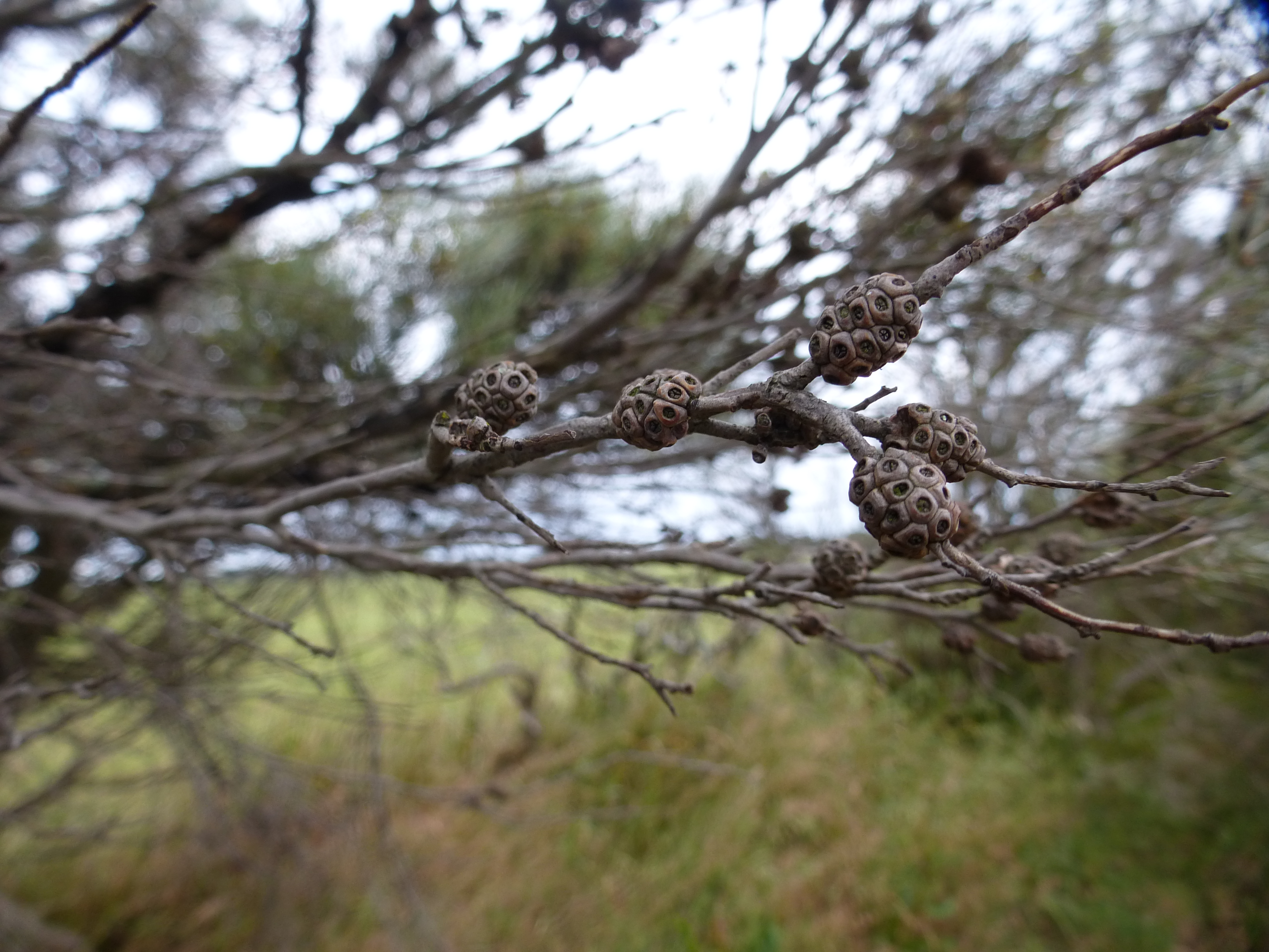 Melaleuca osullivani growing at the type location near Busselton